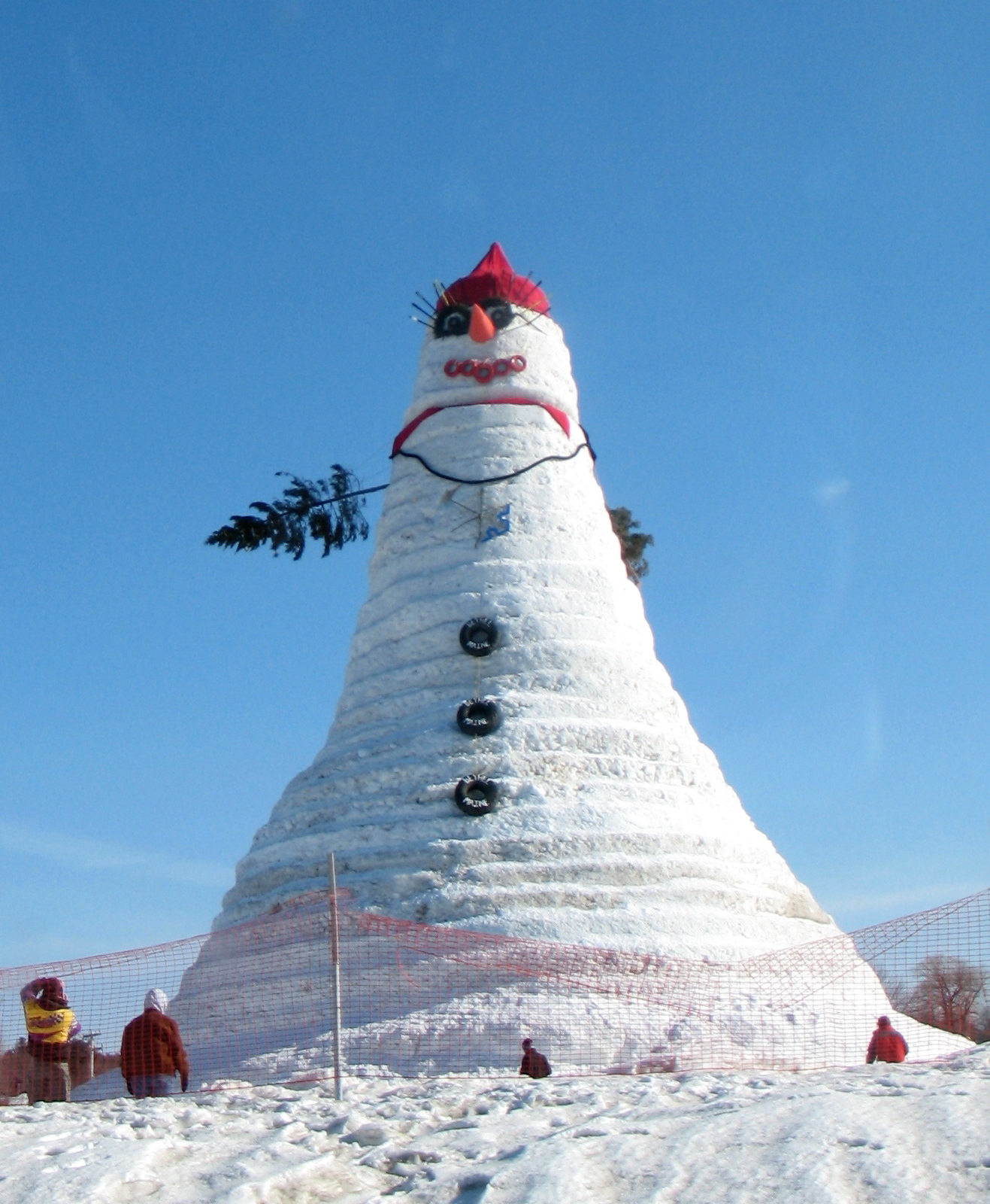 Townspeople and businesses in Bethel, Maine created "Olympia" the snow-woman, named after Maine senator Olympia Snowe, which is 122 feet, one inch high. It set a new Guinness world record, breaking a snowman also made in Bethel in 1999. It took more than a month to build, had a 100-foot scarf, 27-foot evergreen trees for arms, and the eyelashes were made of old skis donated from nearby ski resort Sunday River.